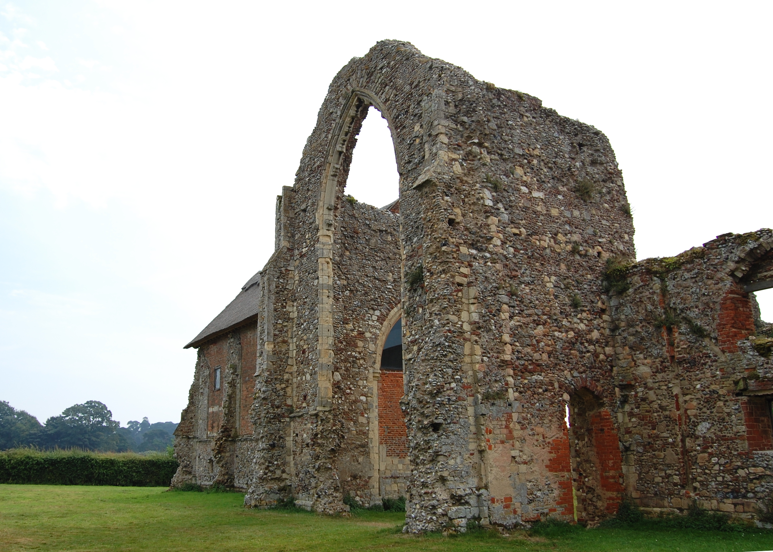 Leiston Abbey, Suffolk, England.